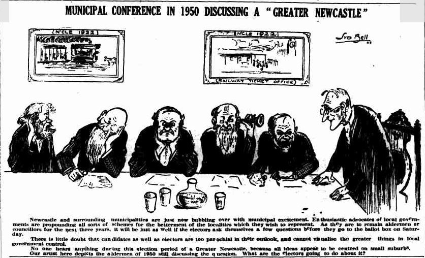 A cartoon describing progress on the unification of the City of Newcastle published in the Newcastle Sun on 30 November 1922